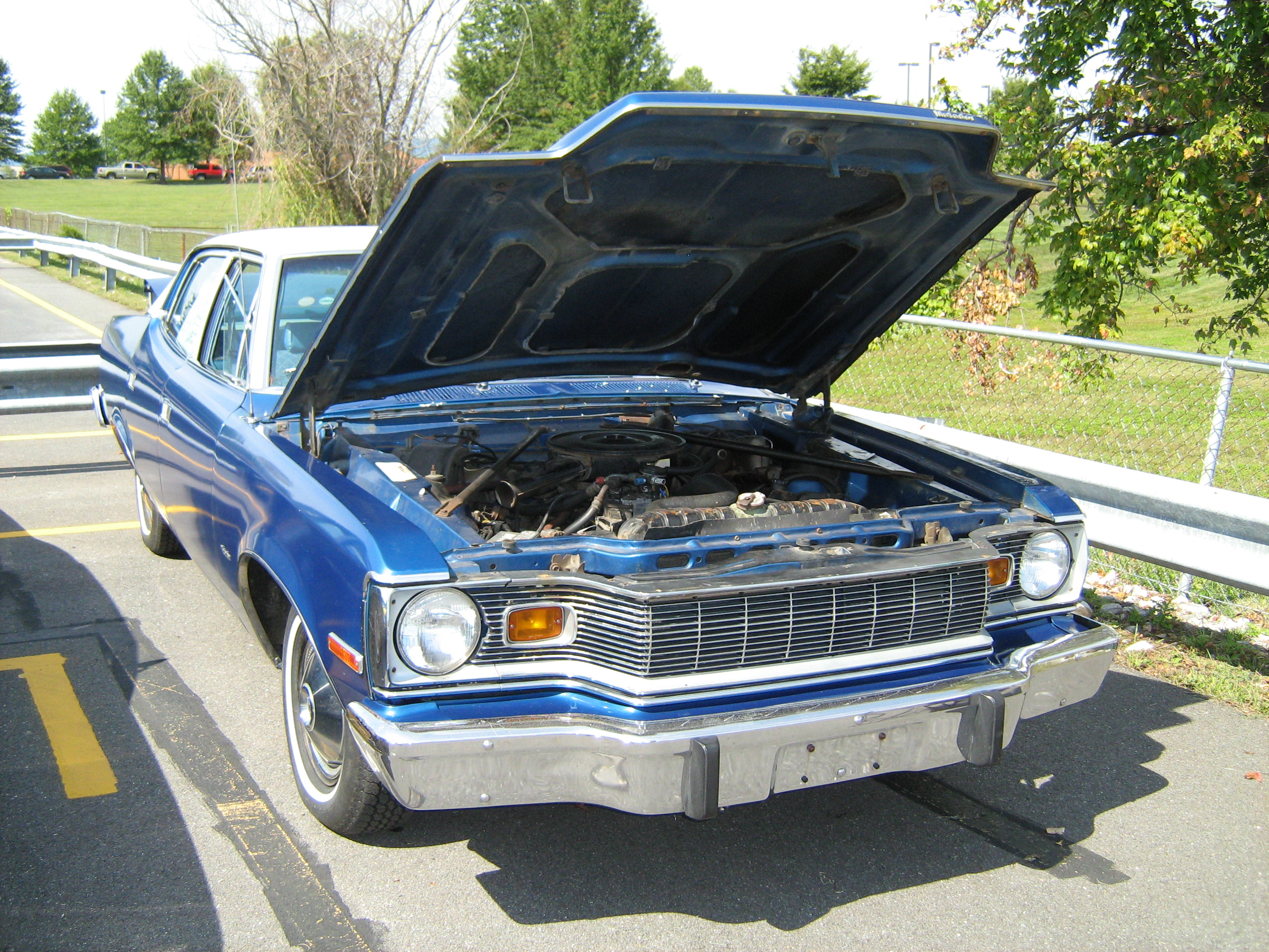 1975 AMC Matador four-door sedan - built by American Motors Corporation. This is a base model a with factory two-tone finish (blue with white top). View of right front with the hood up.